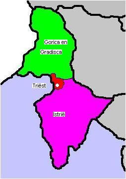 Map of the Austrian Littoral in 1914: Princely County of Gorizia and Gradisca Imperial Free City of Trieste and its Suburbs March of Istria This historical map image could be recreated using vector graphics as an SVG file. This has several advantages; see Commons:Media for cleanup for more information. If an SVG form of this image is available, please upload it and afterwards replace this template with vector version available|new image name . This image was uploaded in the JPEG format even though it consists of non-photographic data. This information could be stored more efficiently or accurately in the PNG format or SVG format. If possible, please upload a PNG or SVG version of this image without compression artifacts, derived from a non-JPEG source (or with existing artifacts removed). After doing so, please tag the JPEG version with Superseded|NewImage.ext and remove this tag. This tag should not be applied to photographs or scans. For more information, see BadJPEG .